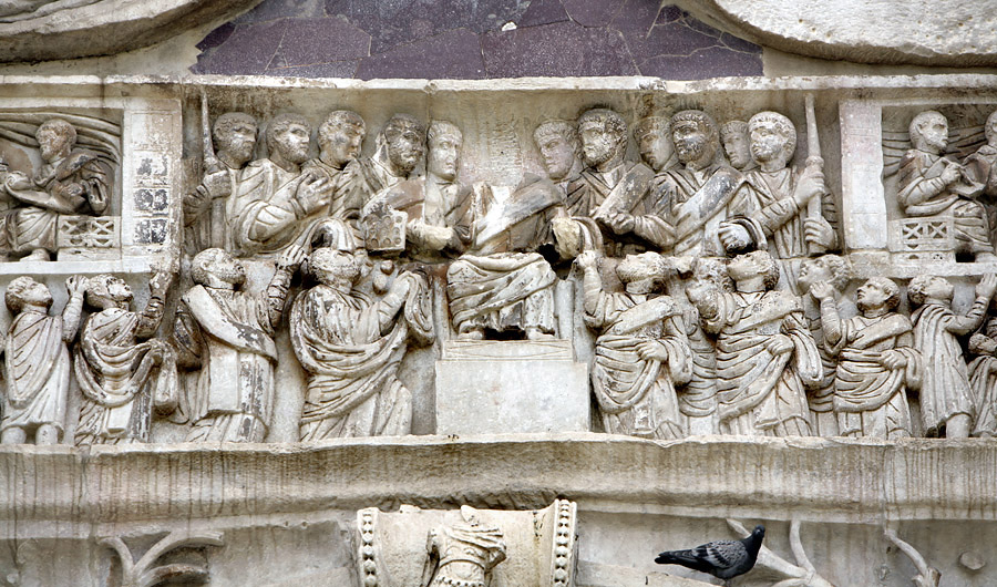 The last scene (North side of arch) in the Constantinian frieze on the Arch of Constantine. It recalls Marcus Aurelius in the liberalitas attic panel of the arch, overseeing the distribution of gifts to the public. Constantine is in the exact center of the frieze (in the center of this photo), seated on a podium (his head is missing). The similarity to Christian depictions of the throned Christ surrounded by disciples - intentional or coincidental - is obvious. Constantine's right hand holds a tessera with slots for coins, some of which are falling out to be caught in the toga of a senator who gazes up at his benevolent leader.